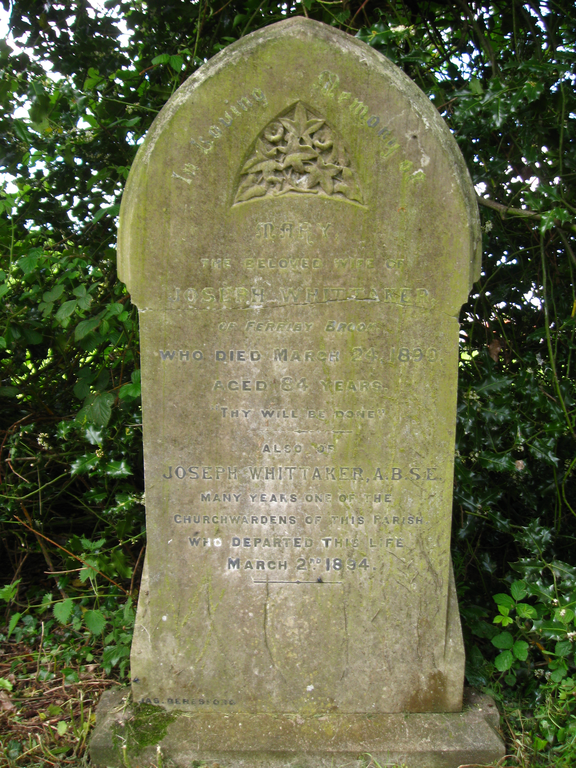 Gravestone of Joseph Whitaker, A.B.S.E. and of his wife Mary. Located in St Matthews Church, Morley, Derbyshire, UK.